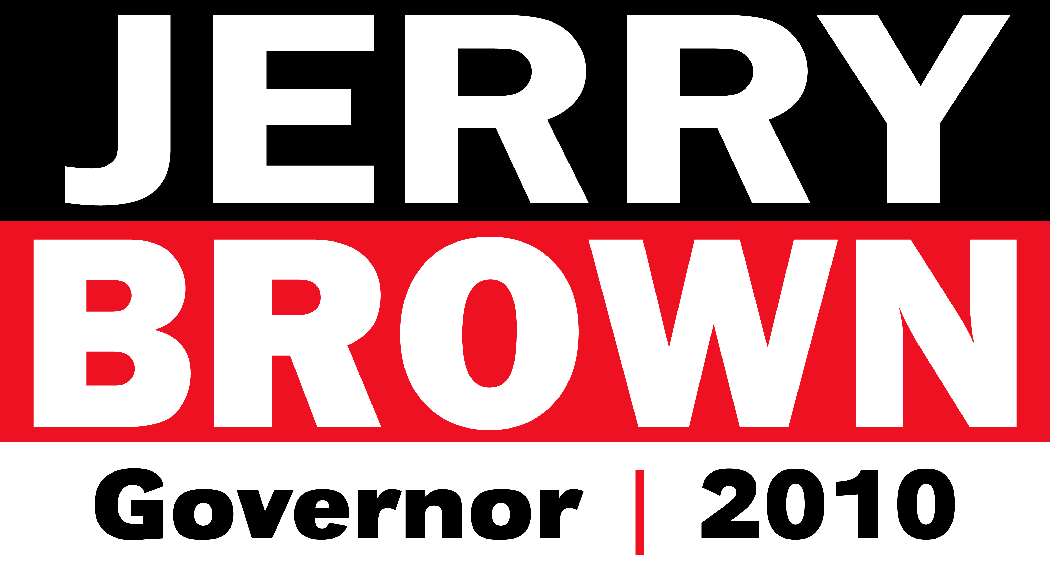 Logo for Jerry Brown's 2010 Campaign